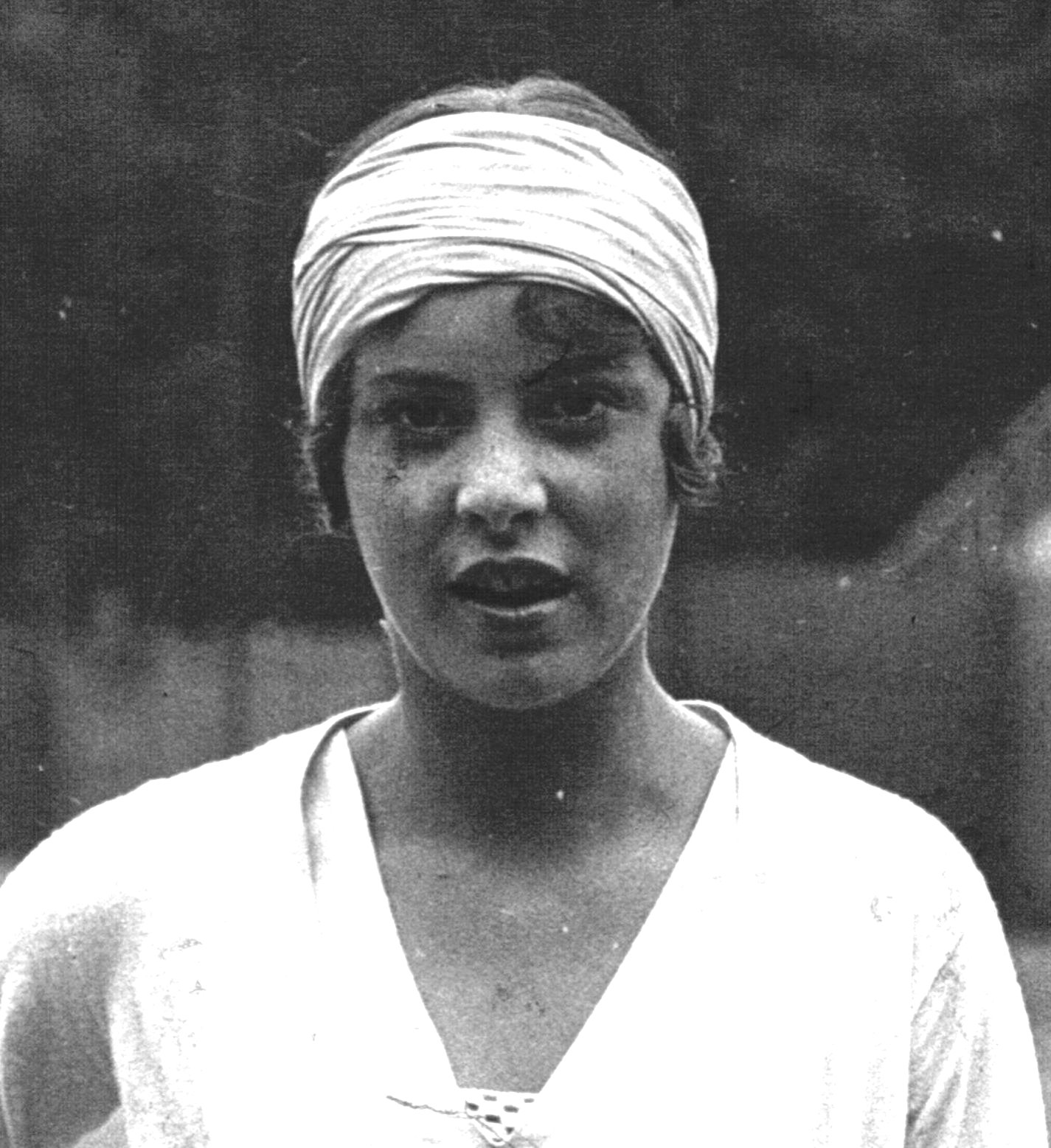 German tennis player Cilly Aussem, at the French Championships 1927